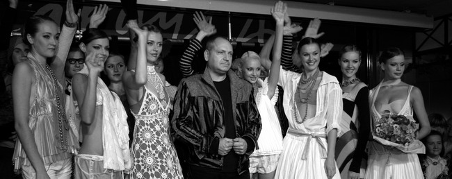 Sasha Varlamov and his models at the beneficent showing at Berlin (Germany), 2005 AD